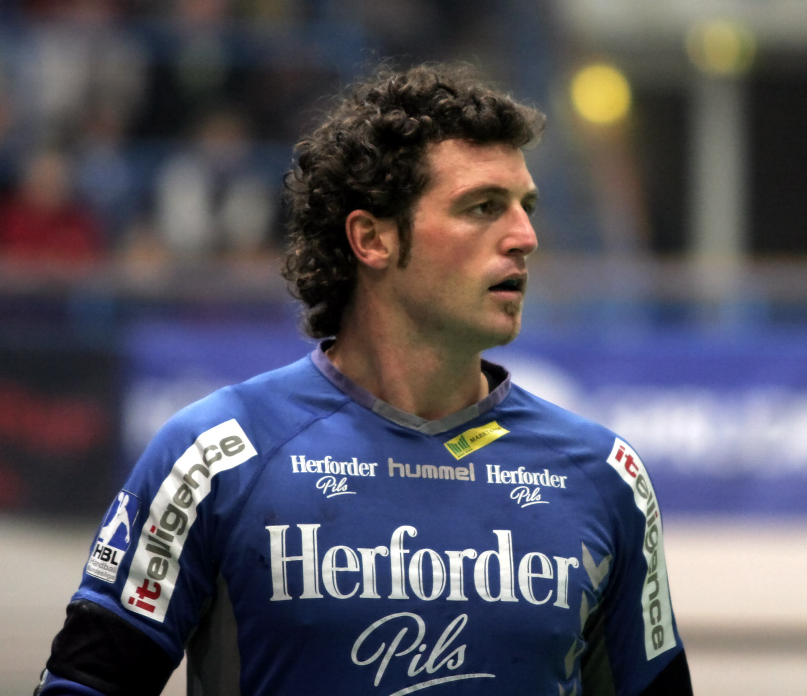 Florian Kehrmann, on March 24th 2007 in Aschaffenburg (Germany), during the game TV Grosswallstadt - TBV Lemgo (27:29)